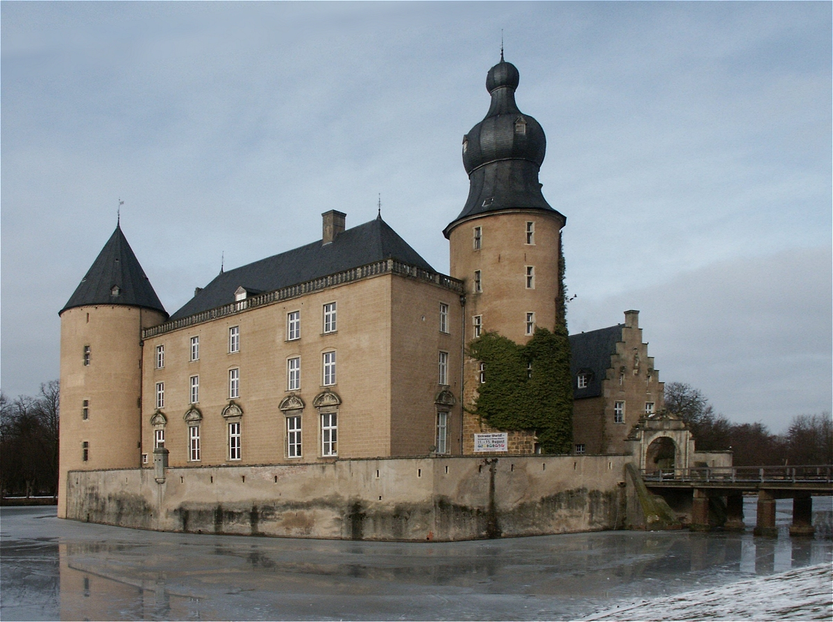 Description: Castle of Gemen, view from south-west